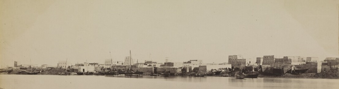 General view of the sea front in Bahrain, possibly at Manama. The horizon line is punctuated by various built structures before which a variety of dhows and other craft are moored, at anchor or pulled up along the shoreline. Obtained from Qatar Digital Library (